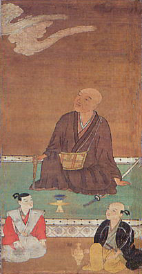 Maeda Toshiharu, Choreiji, Nanao, kept at Ishikawa Nanao Art Museum, Nanao, Ishikawa, Japan